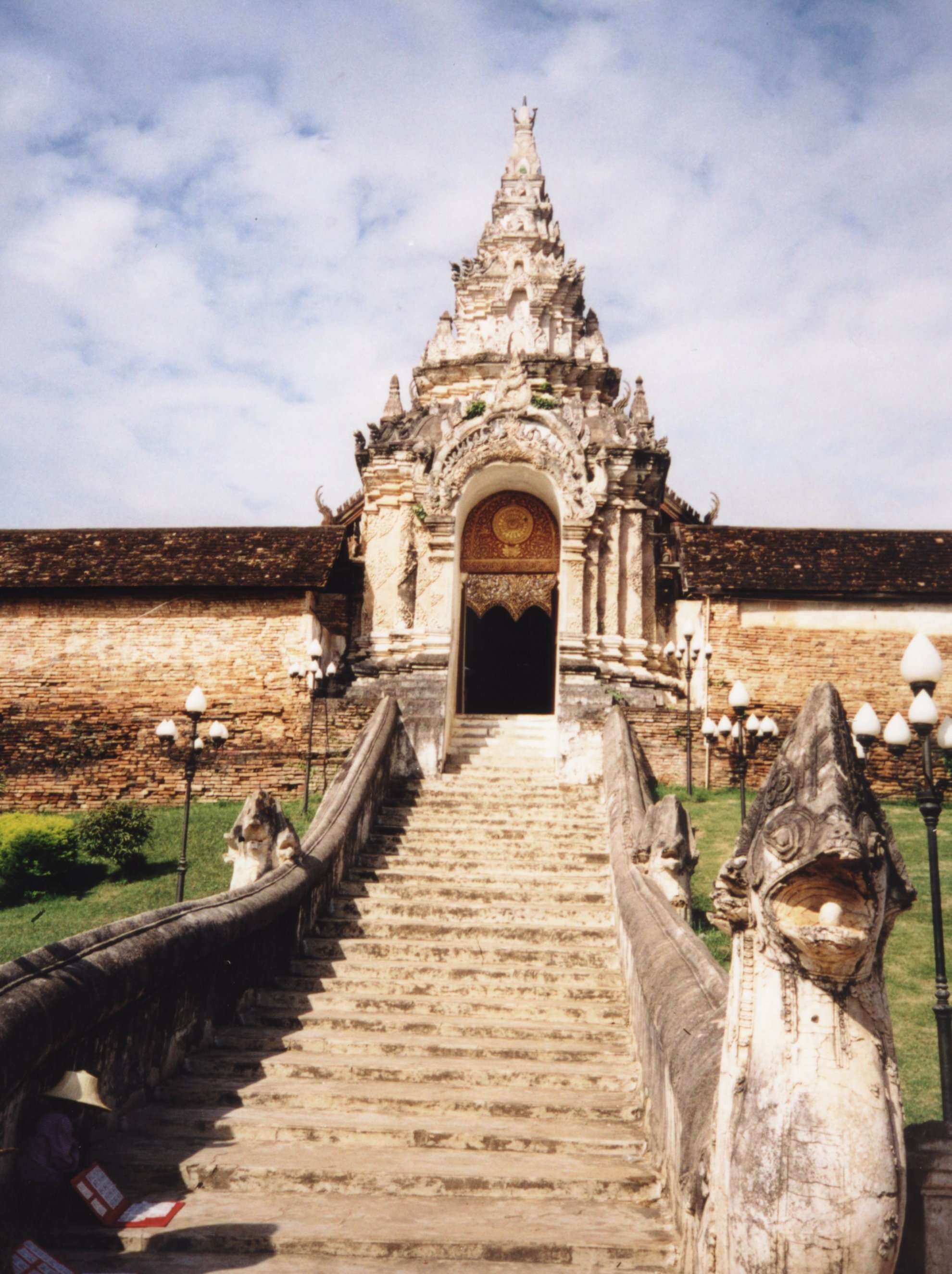 Naga staircase and entrance to the temple Wat Phra Tat Lampang Luang, Lampang province, Thailand. Photo by User:Ahoerstemeier taken on October 21 2000.